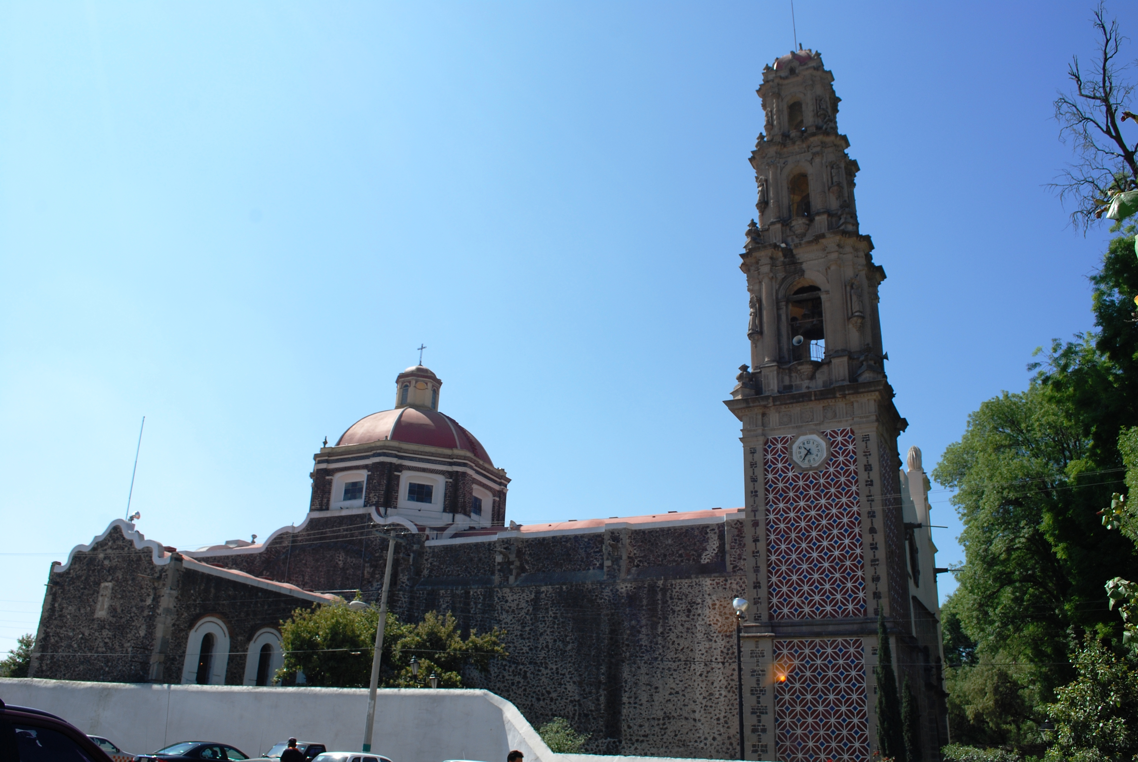 Side view of the church of San Juan Evangelista in Teotihuacan, Mexico State